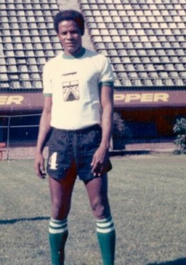 Rodrigues Neto while playing for Ferro Carril Oeste.